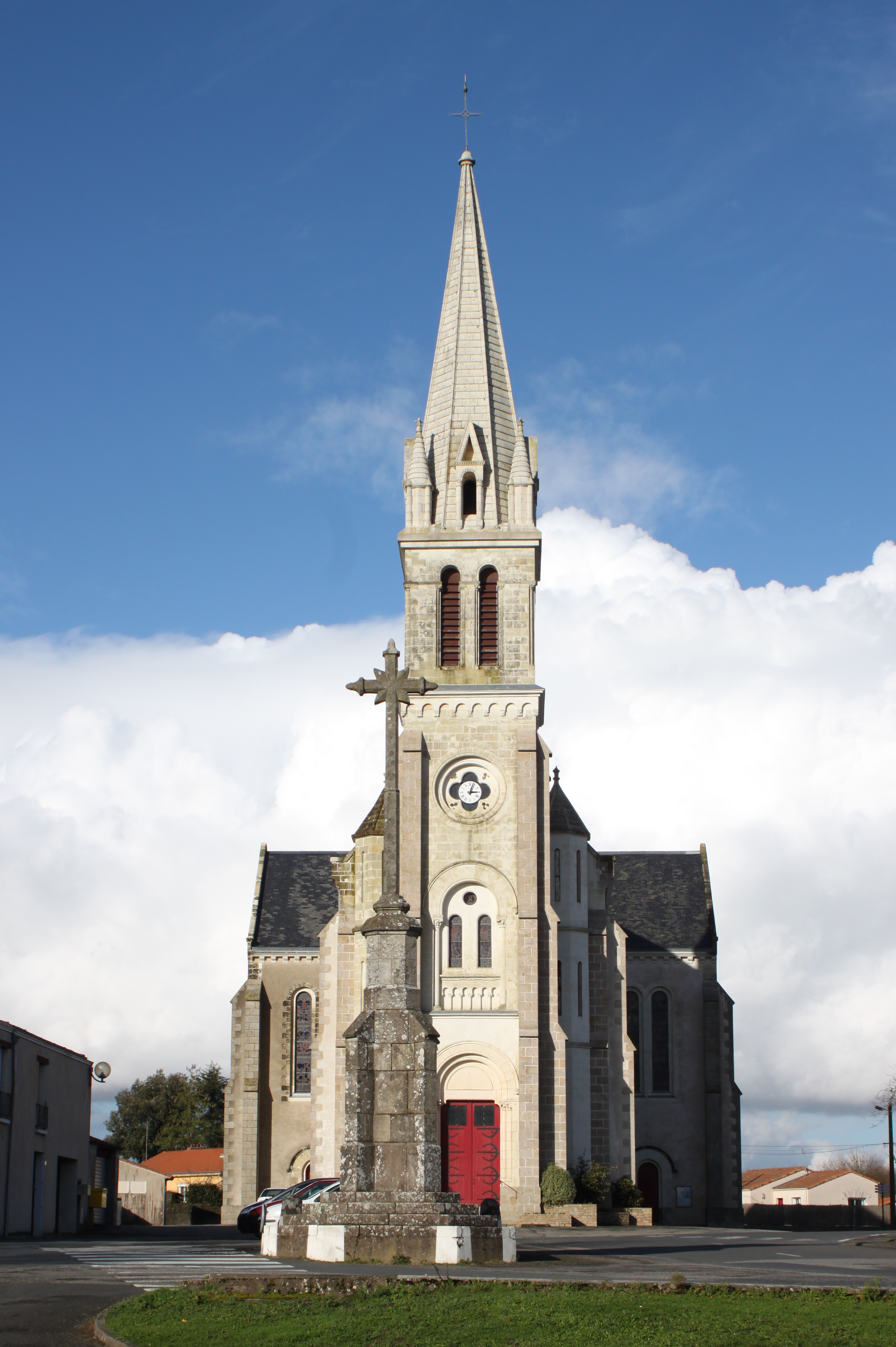 Saint-Hilaire's church, Fr-44-Saint-Hilaire-de-Clisson.